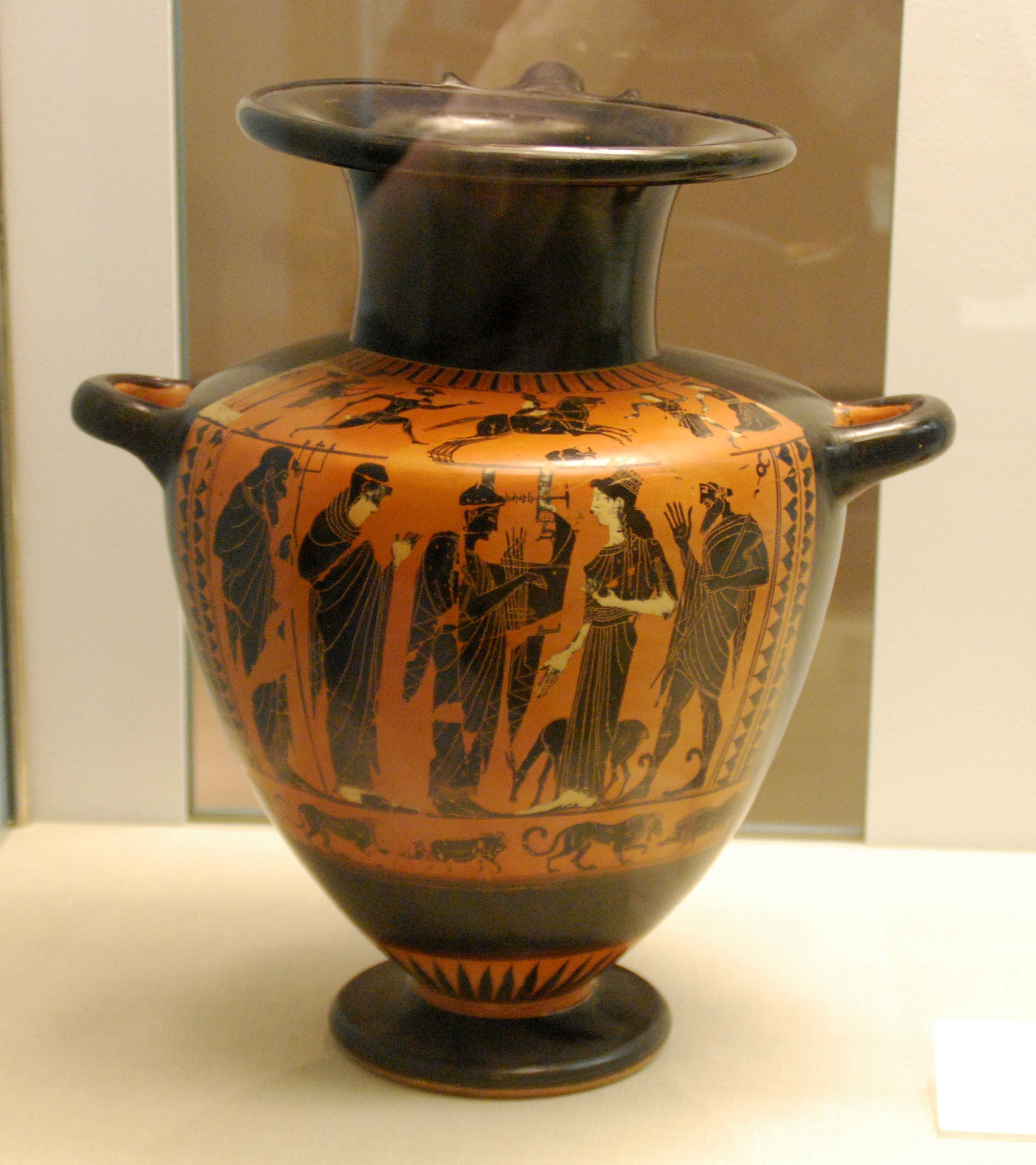 Attic black-figure Hydria attributed to the Antimenes Painter; main fries: Apollon plays Kithara, in front of him Artemis and Hermes, behind him a goddess and Poseidon; under the main frieze a animal frieze with lions and boars; shulder frieze: Achilleus hunts Troilos and two trojan Women, on the left Athena in front of a fountain